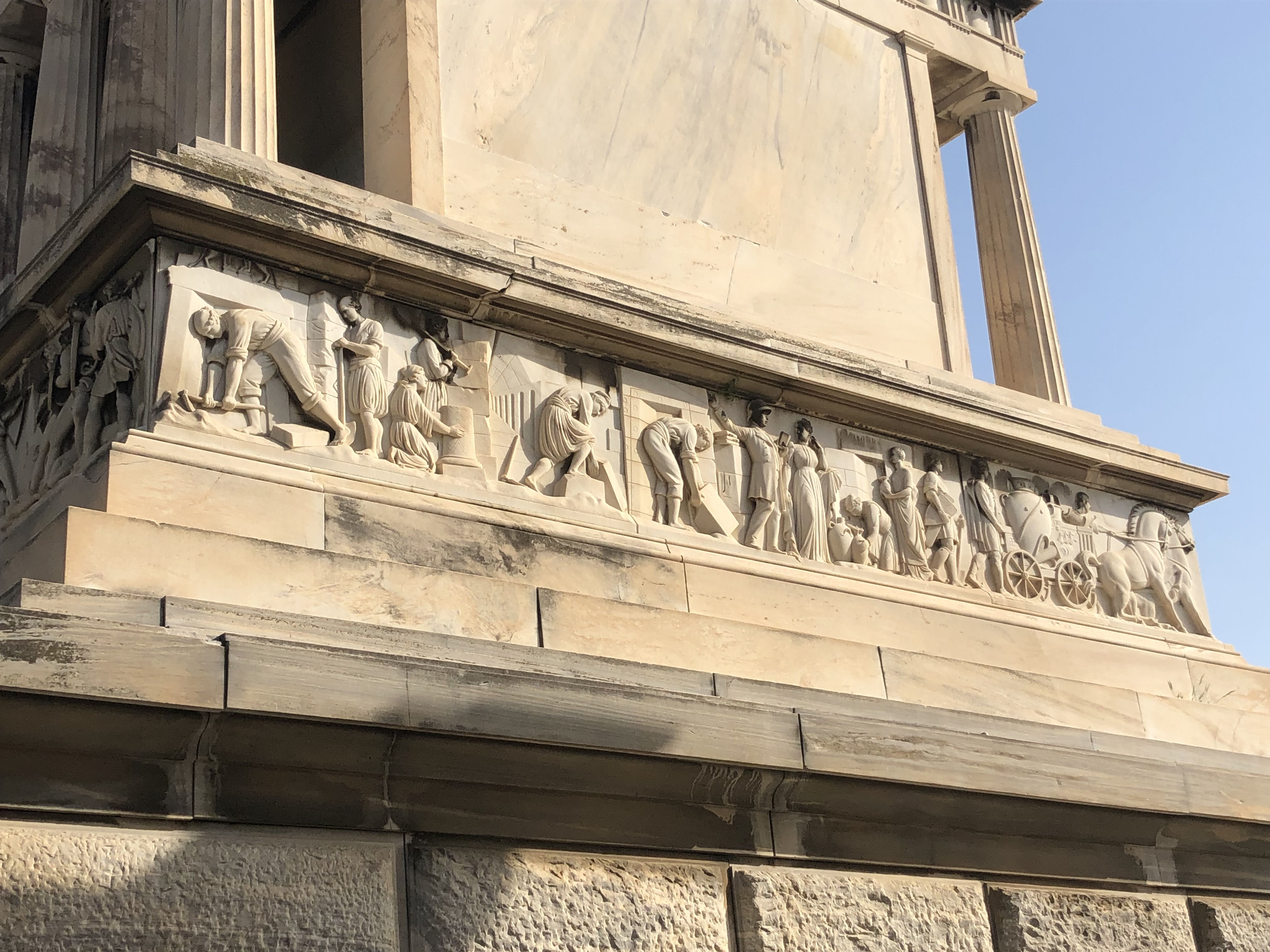 Schliemann Grave